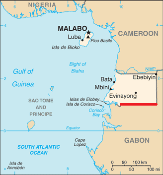 Map of Equatorial Guinea, showing the 1st parallel north as part of the border with Gabon